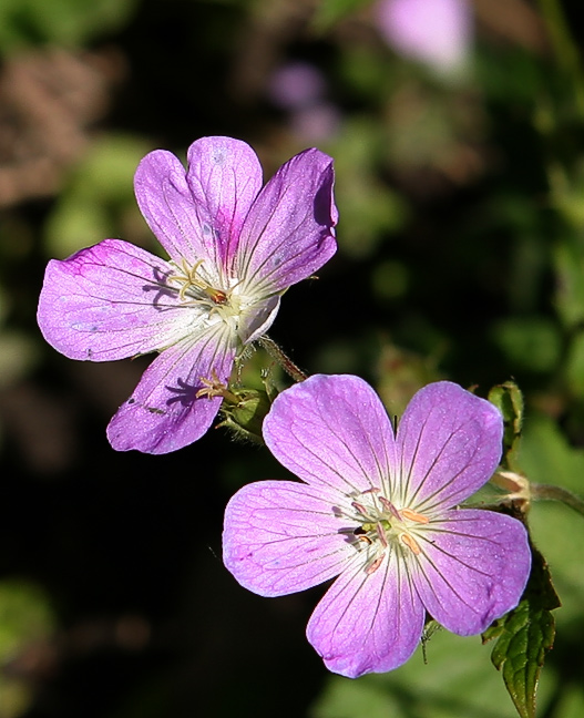 Self made, Taken June 2007, in Minnesota by Paul Henjum.